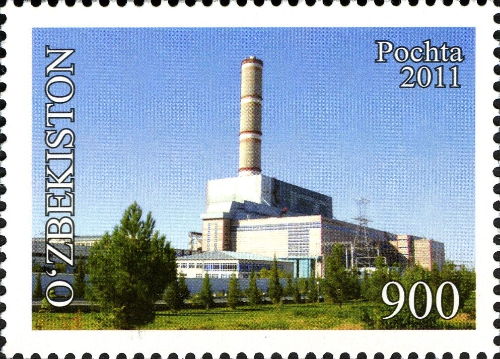 A stamp of Uzbekistan from The 20th Year of the Independence of Uzbekistan series, 2011. It depicts the Talimarjan Thermal Power Station, located in the village of Nuristan, Nishon District of Qashqadaryo Region, Uzbekistan.